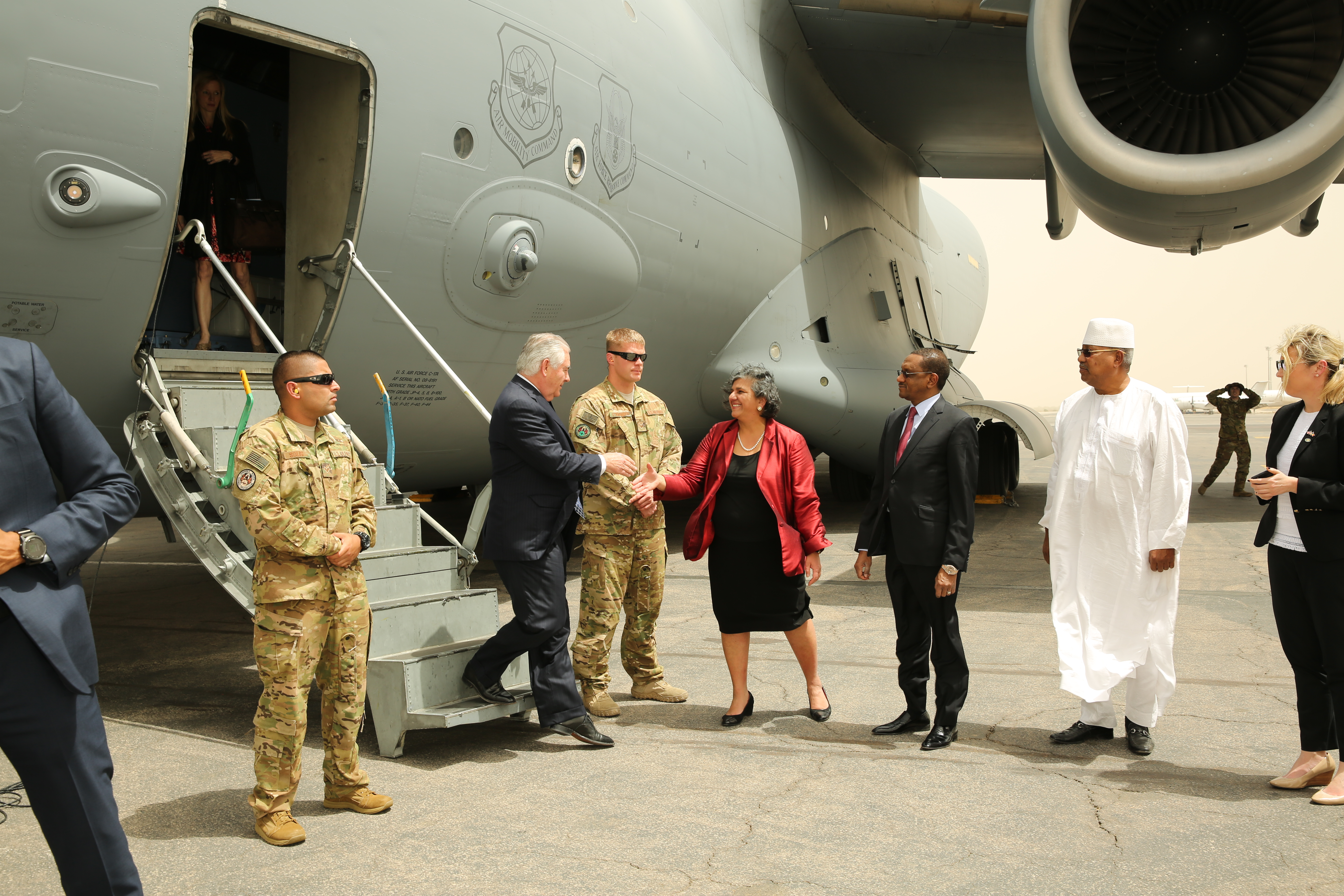 U.S. Secretary of State Rex Tillerson is greeted by U.S. Ambassador to Chad Geeta Pasi upon arrival to N’Djamena, Chad on March 12, 2018. [State Department photo/ Public Domain]